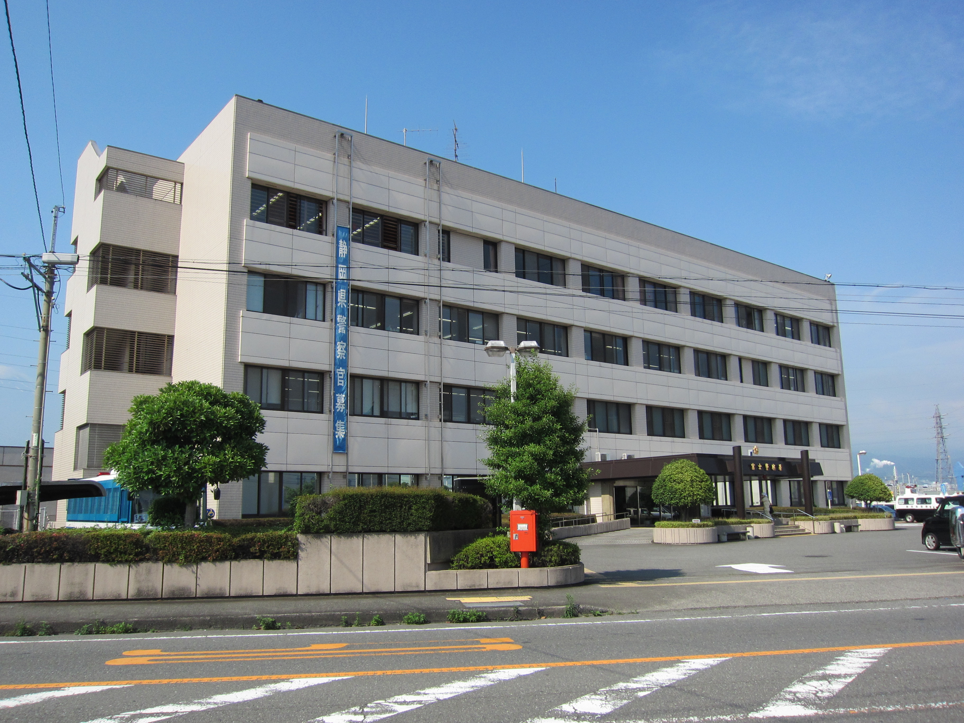 Fuji Police Station